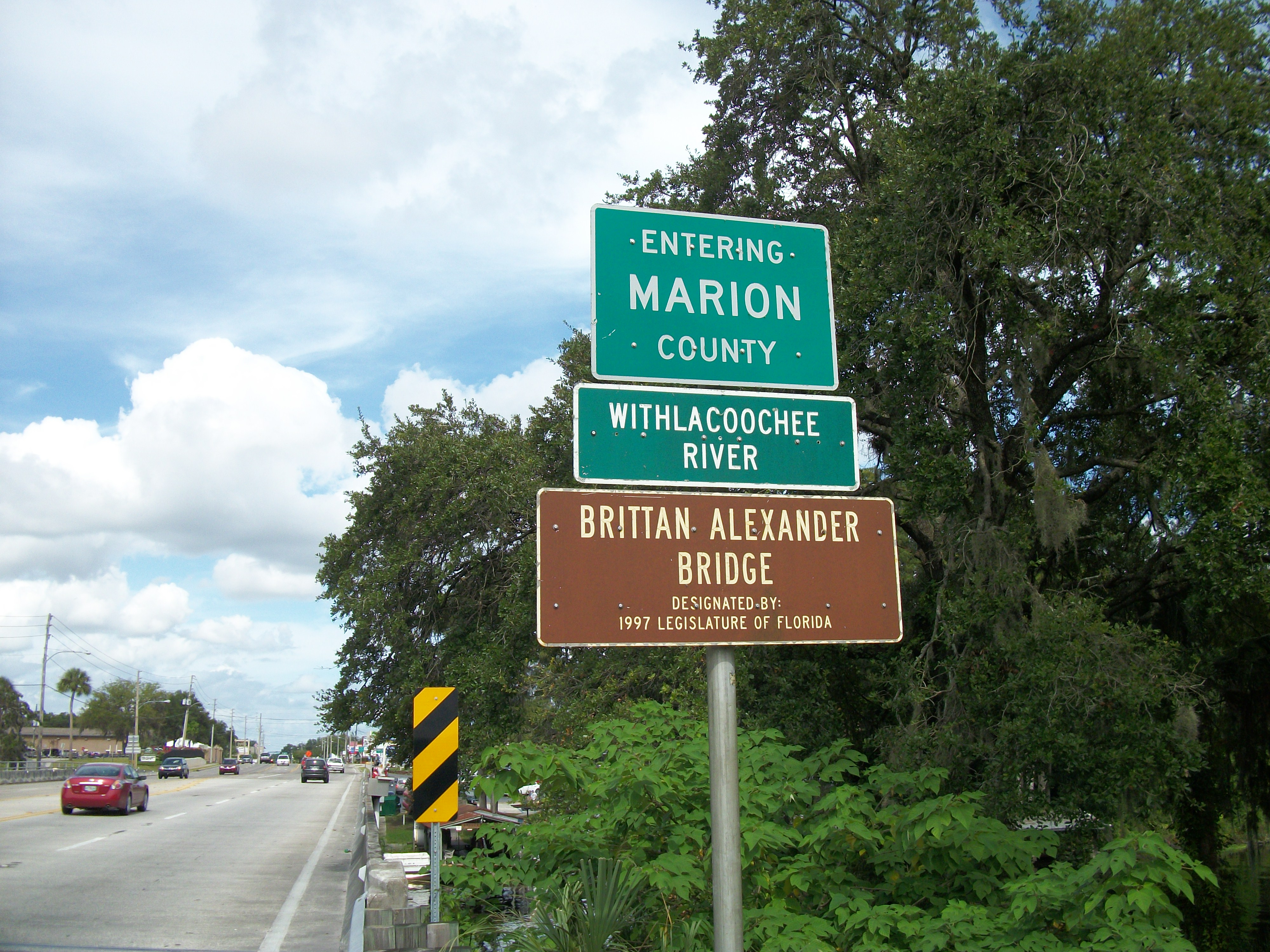 Northbound U.S. Route 41 as it approaches the Brittan Alexander Bridge over the Withlacoochee River between Citrus Springs and Dunnellon, Florida. Don't be fooled by the 1997 designation, because that doesn't mean it was built in that year.